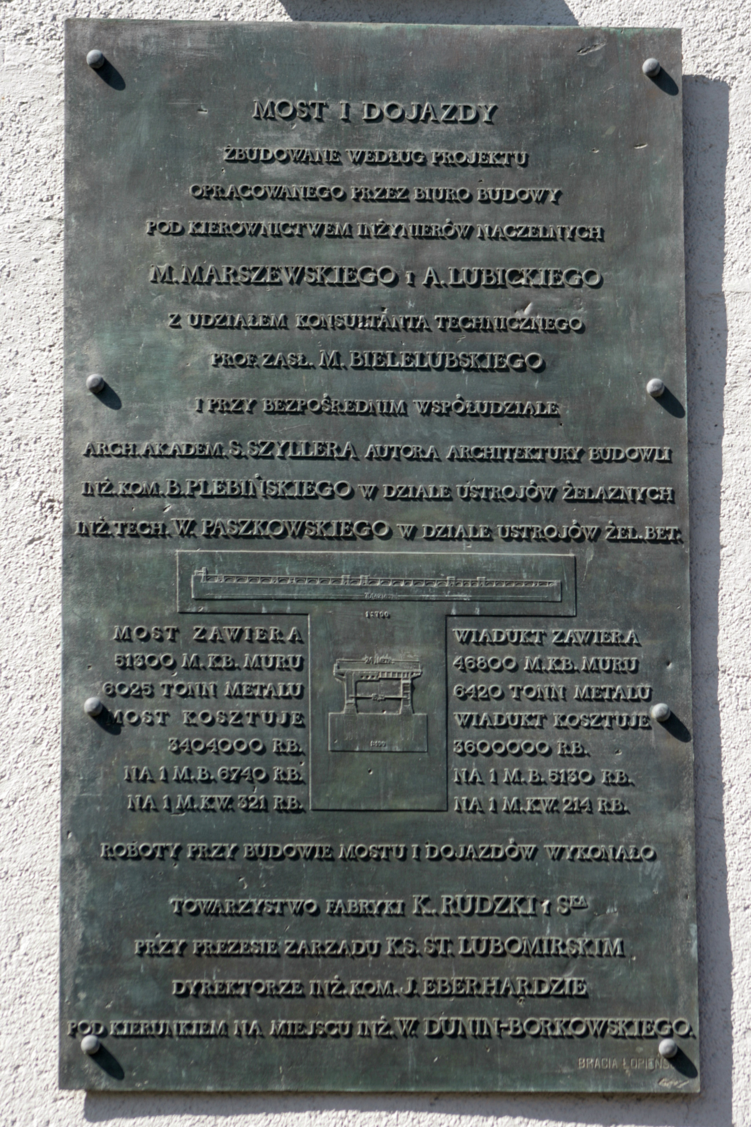 Plaque commemorating Poniatowski Bridge rebuilding